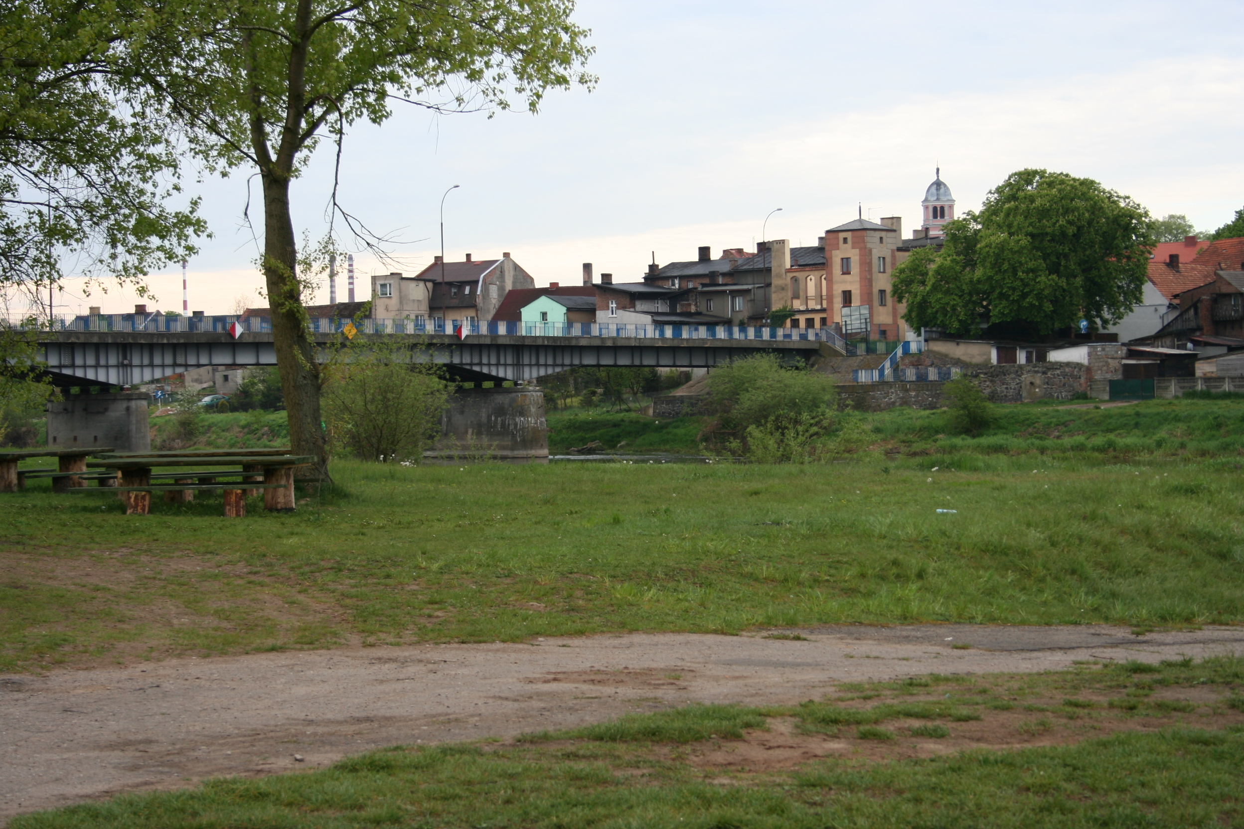 Sieraków view from the right shore of Warta river 2008